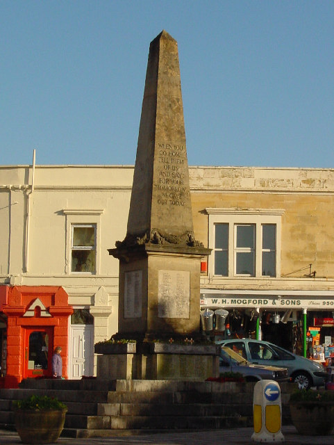 Westbury-on-Trym War Memorial, inscription: WHEN YOU GO HOME TELL THEM OF US AND SAY: FOR YOUR TOMORROW WE GAVE OUR TODAY